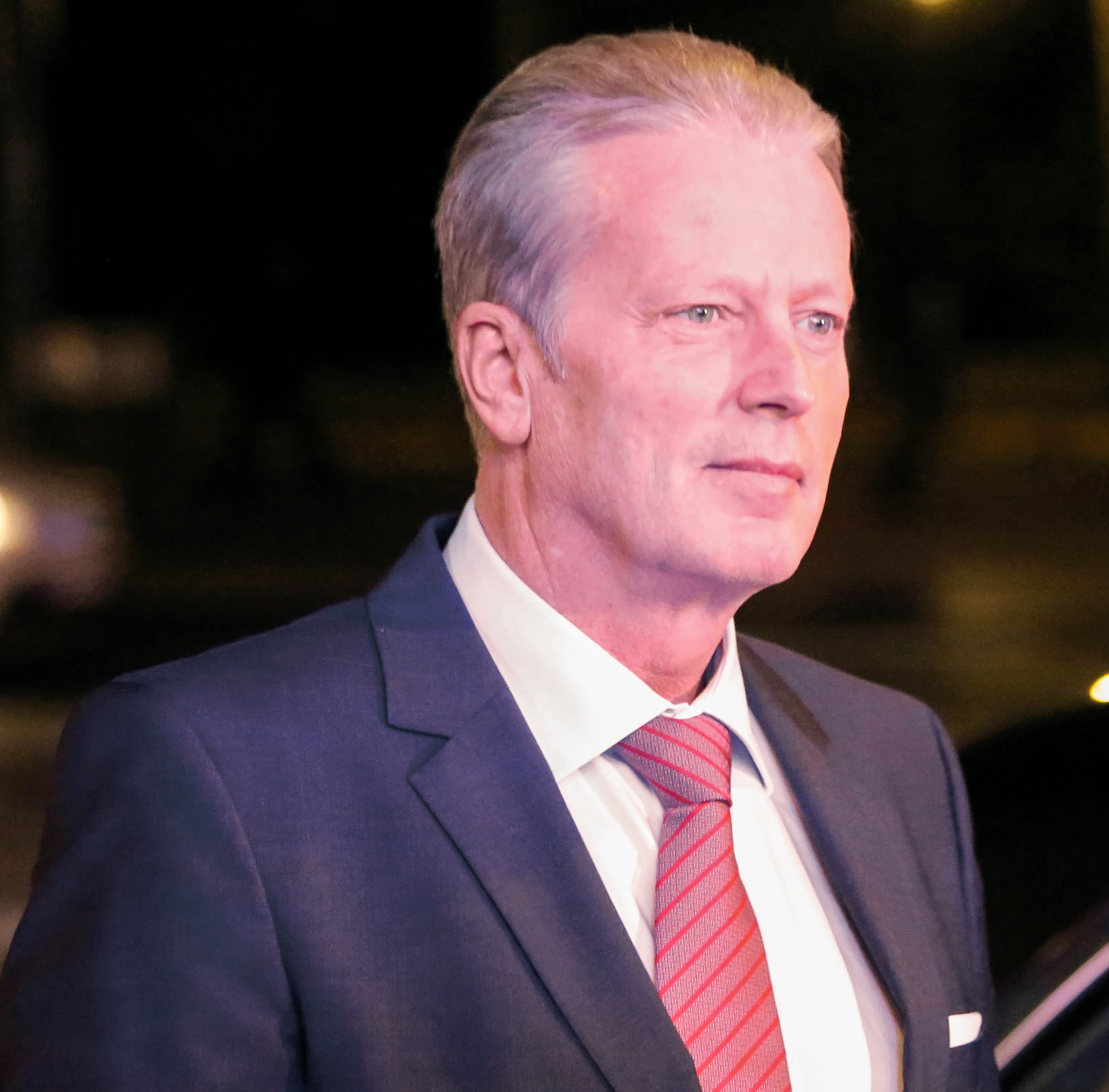 Reinhold Mitterlehner at Vienna International Film Festival 2012 (Gartenbaukino).